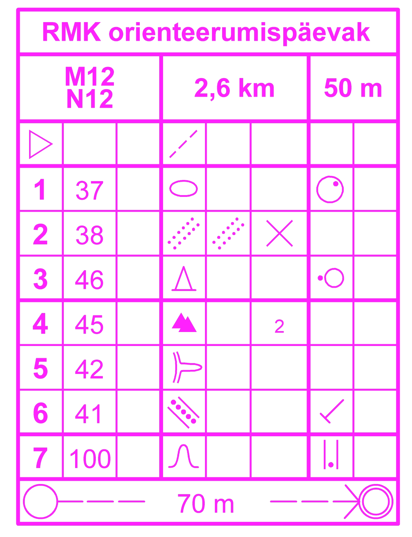 Orienteering control description from Estonia for a short (M/W12) course